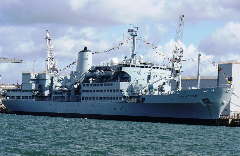 RFA Fort Rosalie (formerly Fort Grange). Devonport Navy Days 2006. DM Gerrard.